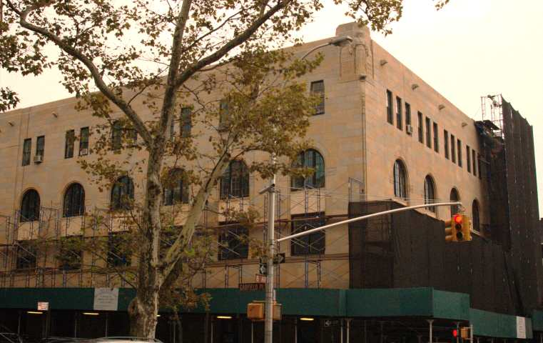 A photograph taken from 8th Avenue in Brooklyn, looking southward toward the Temple House of Congregation Beth Elohim.